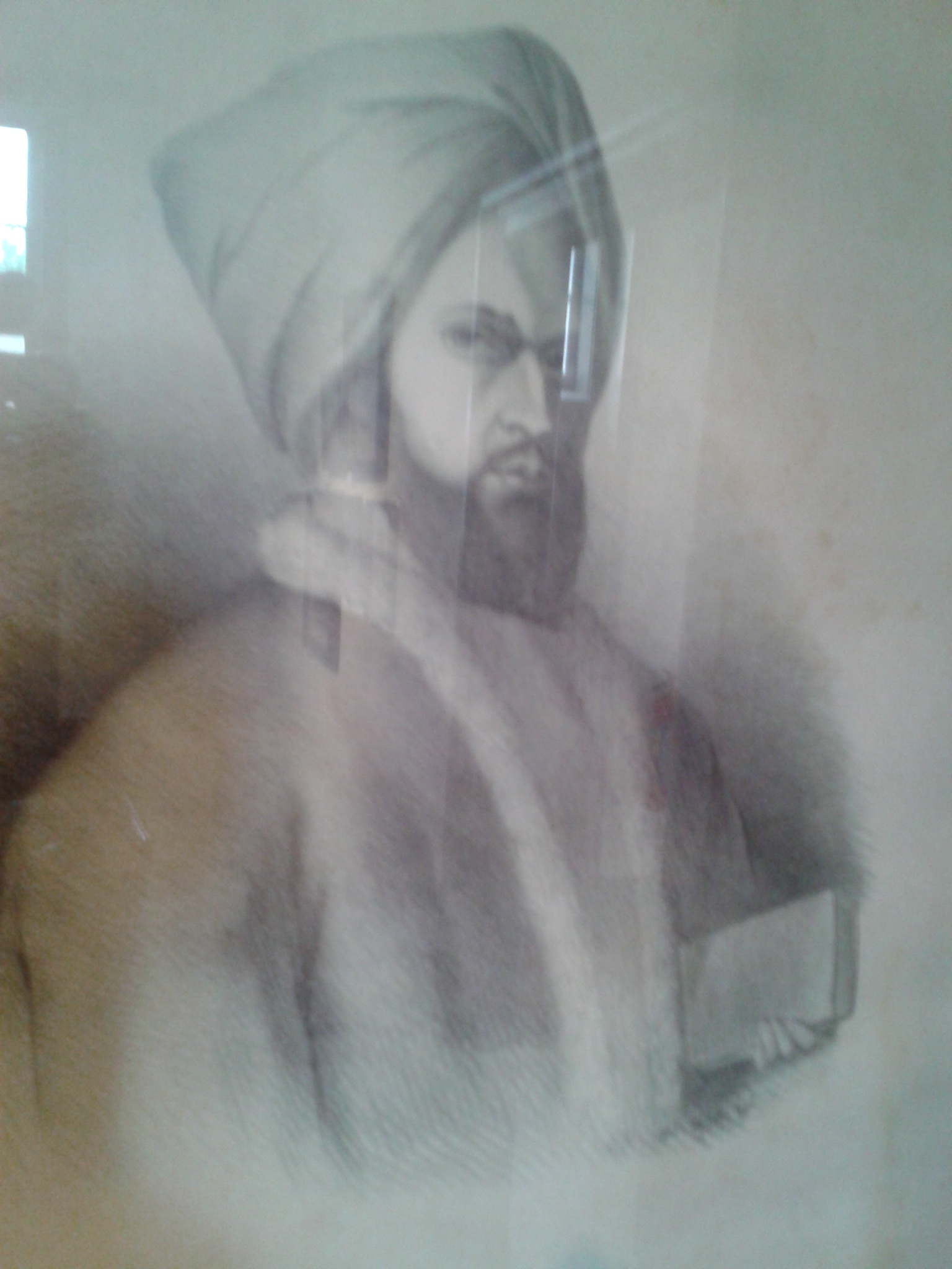 Hezekiah da Silva, as portrayed in a drawing found in the Rabbis' room of the Portuguese Synagogue (Amsterdam).